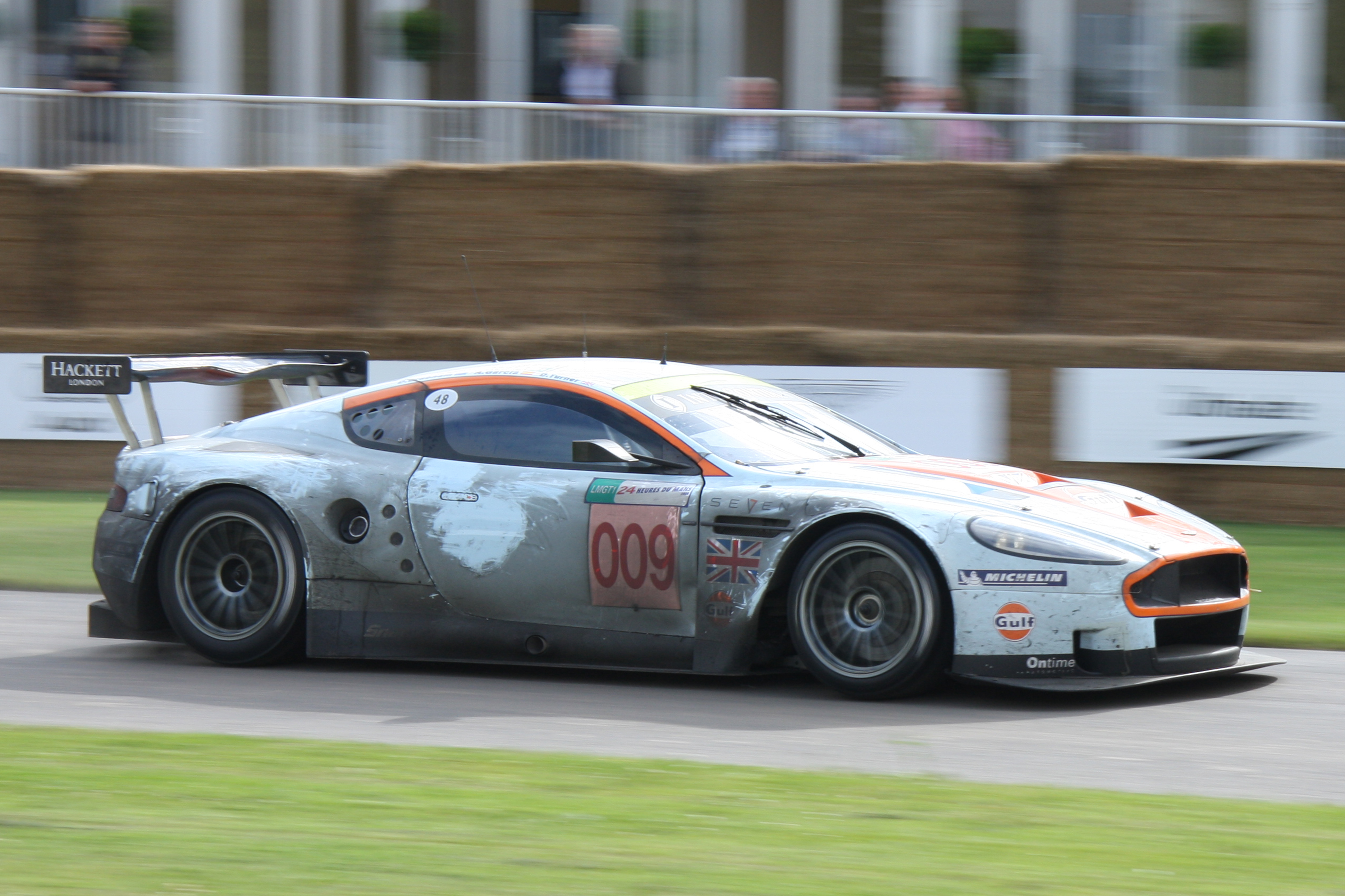 2008 Le Mans 24 hour GT1 class winner. 6 litre V12.